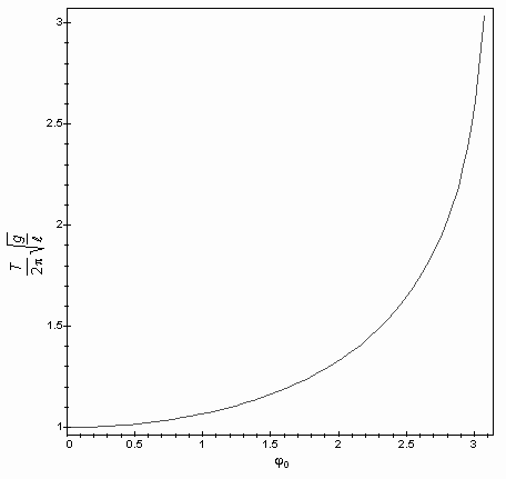 Relation between periode and amplitude in simple pendulum (in the graph φ is measured in radians, not in degrees).